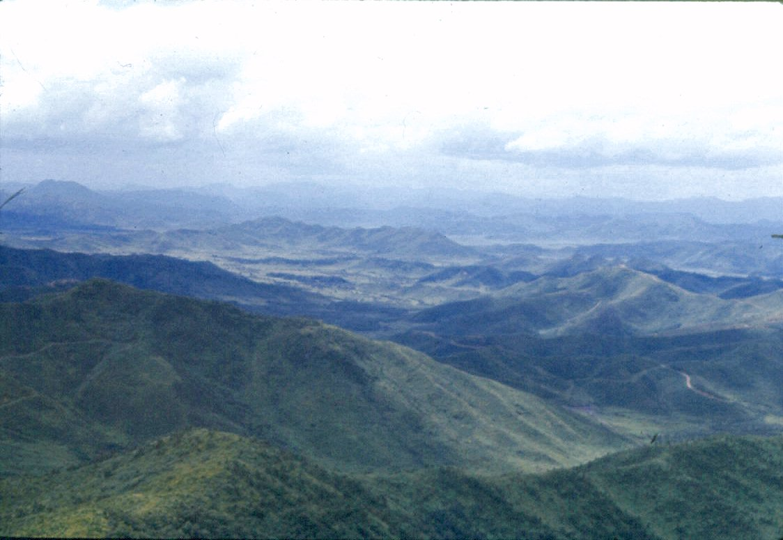 Each one of those hills was fought over for the last two years of the war, where typically, the positions changed hands many times. Pork Chop Hill is in the distance, on the far left, Old Baldy just to the right of that(?), "Aligator Jaws" in the middle, ...